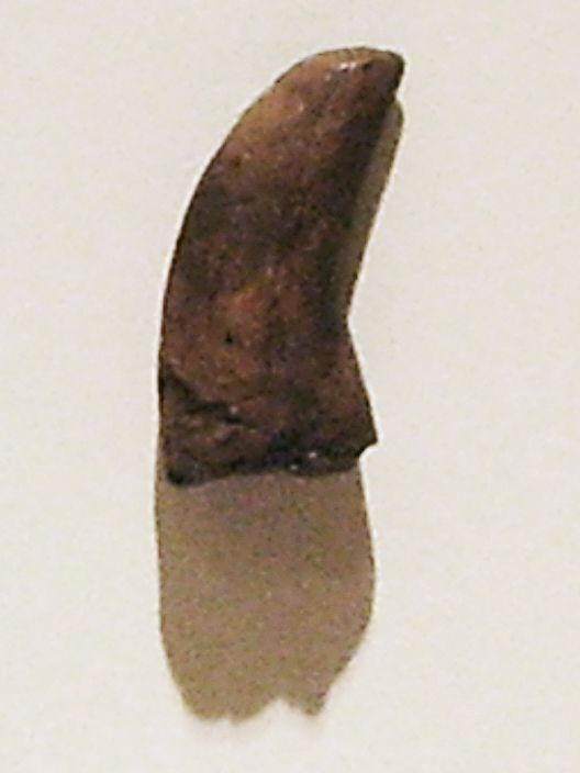 Cast of the holotype tooth (MGUH DK No. 315) of Dromaeosauroides bornholmensis at the Geological Museum in Copenhagen